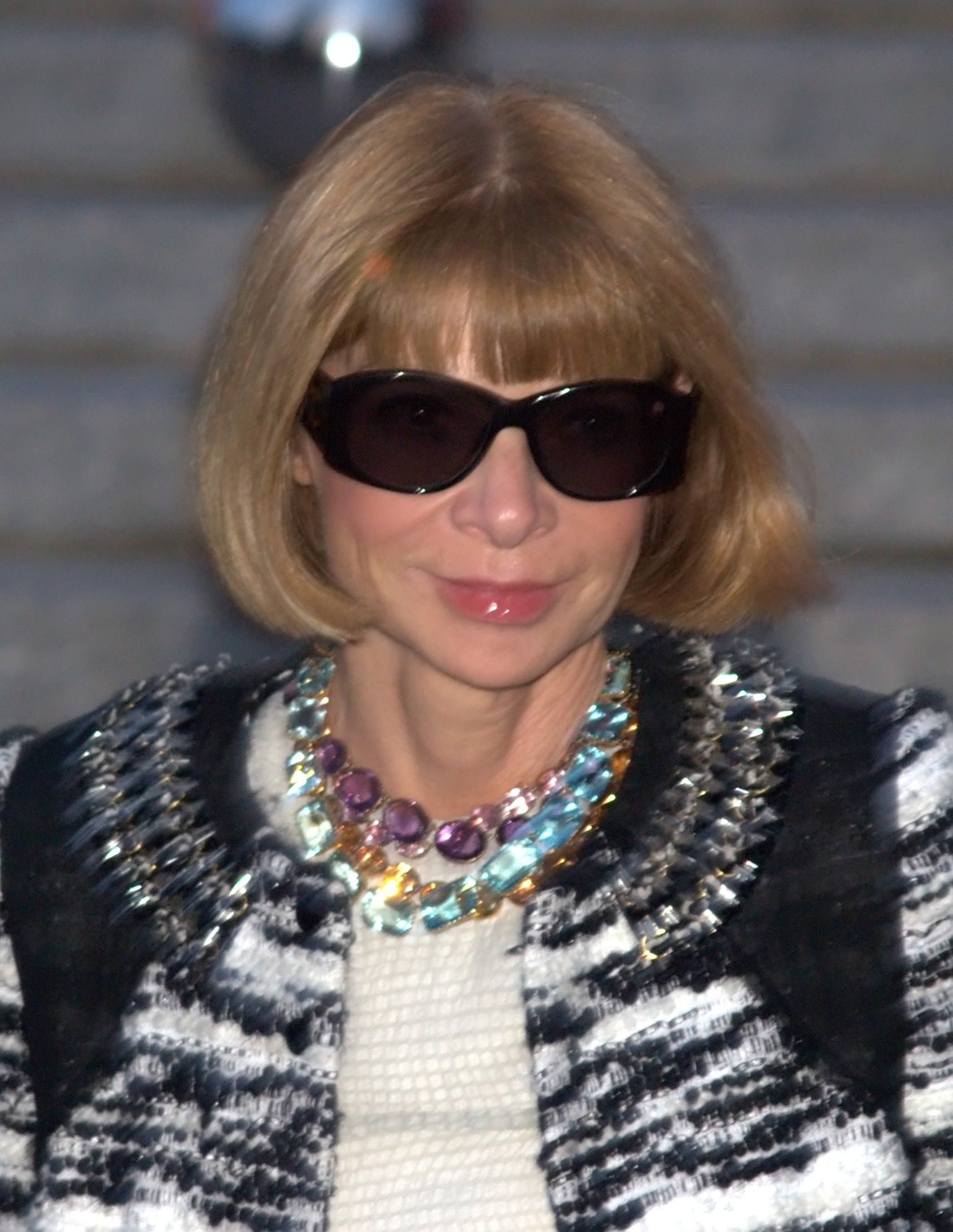 Anna Wintour at the 2010 Tribeca Film Festival.